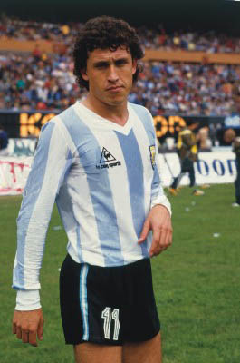 Argentine football player, Jorge Valdano, with the national team.